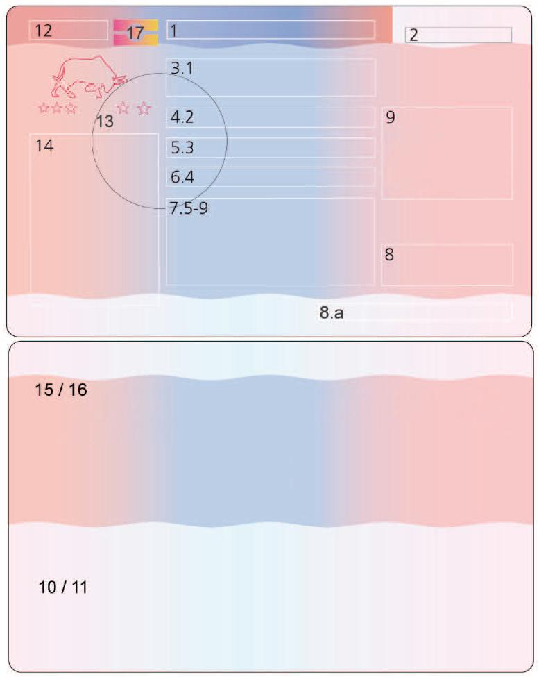 Residence permit for third-country nationals including biometrics in ID 1 format